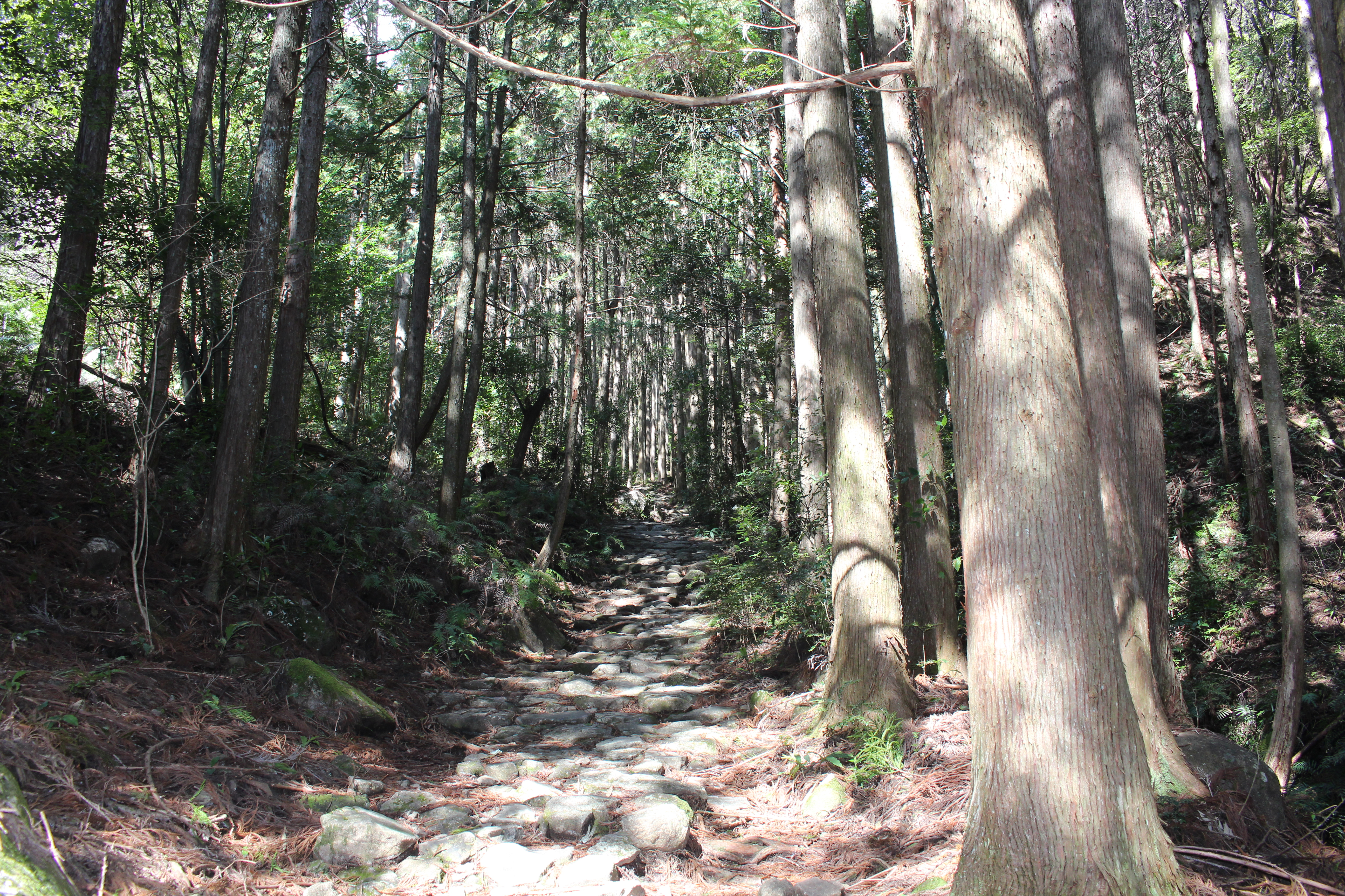 Magose pass route of Kumano Kodō, Owase, Mie prefecture, Japan.